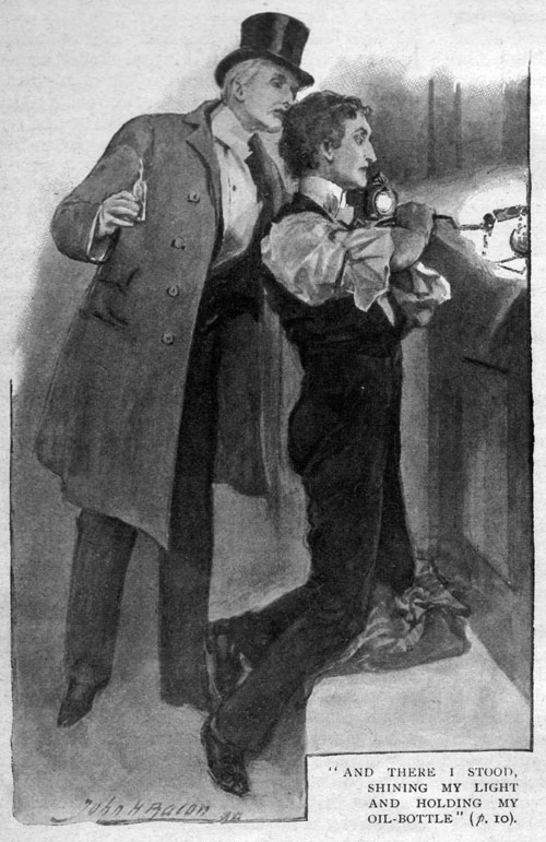 1898 illustration by John H. Bacon, published in Cassell's Magazine for E. W. Hornung's short story "The Ides of March".